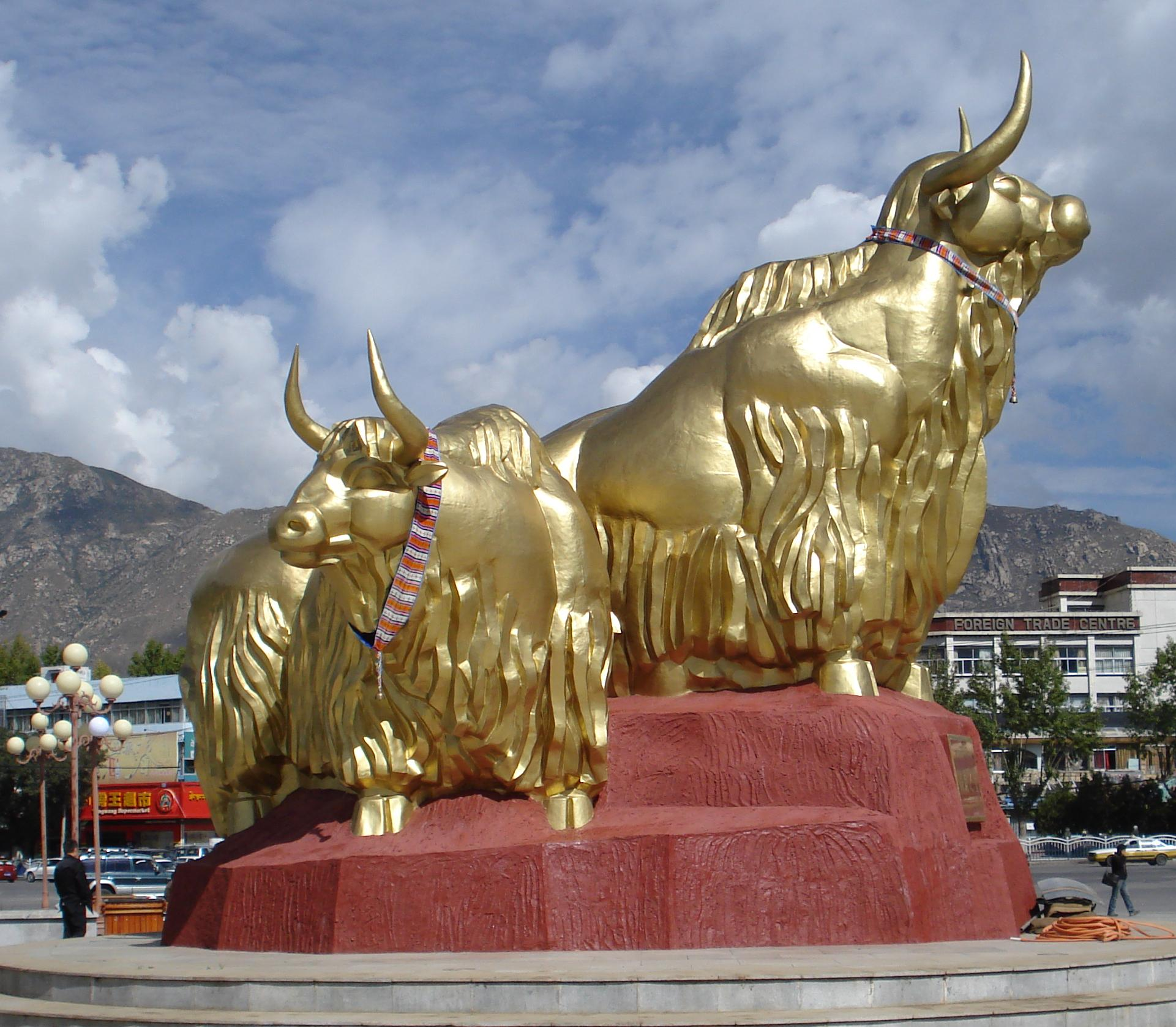 Tibet, Lhasa. Sculpture "Golden yaks". FOP